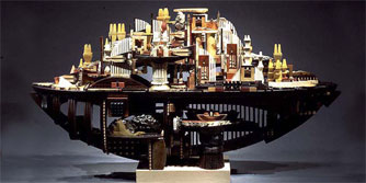 Ocean Liner sculpture 2001, image licensed by the artist